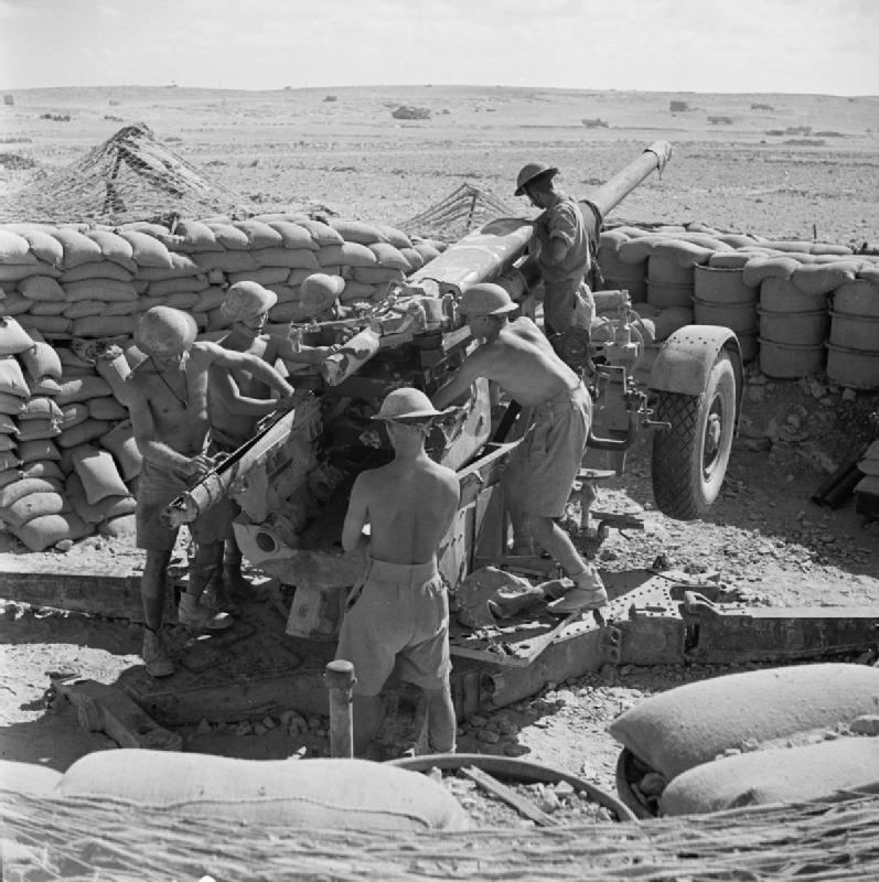 The British Army in North Africa 1941 Gunners cleaning a 3.7-inch anti-aircraft gun near Tobruk, 19 August 1941.